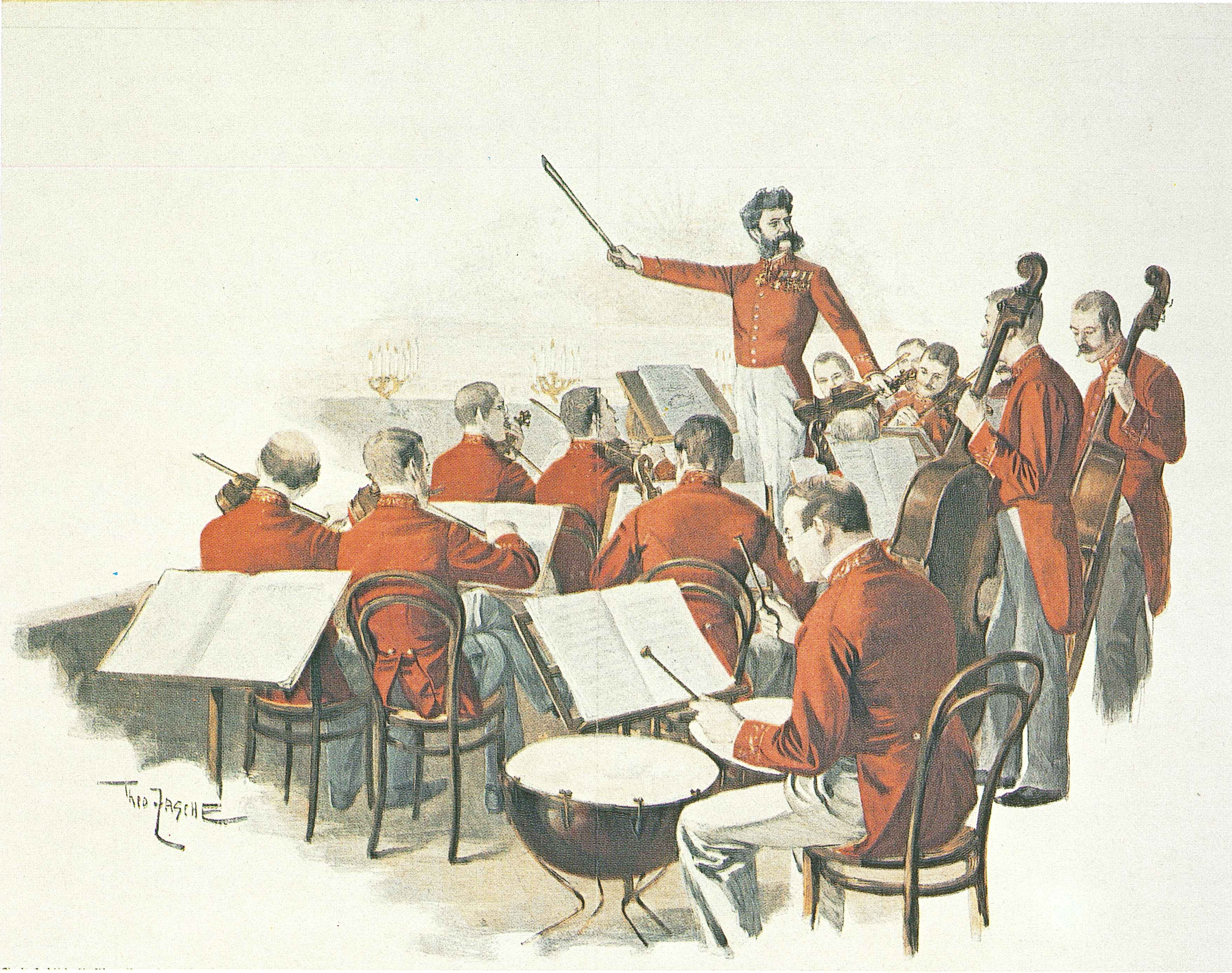 Austrian composer Johann Strauss II (1825–1899)- and his music-band at the court ball.label QS:Len,"Austrian composer Johann Strauss II (1825–1899)- and his music-band at the court ball."